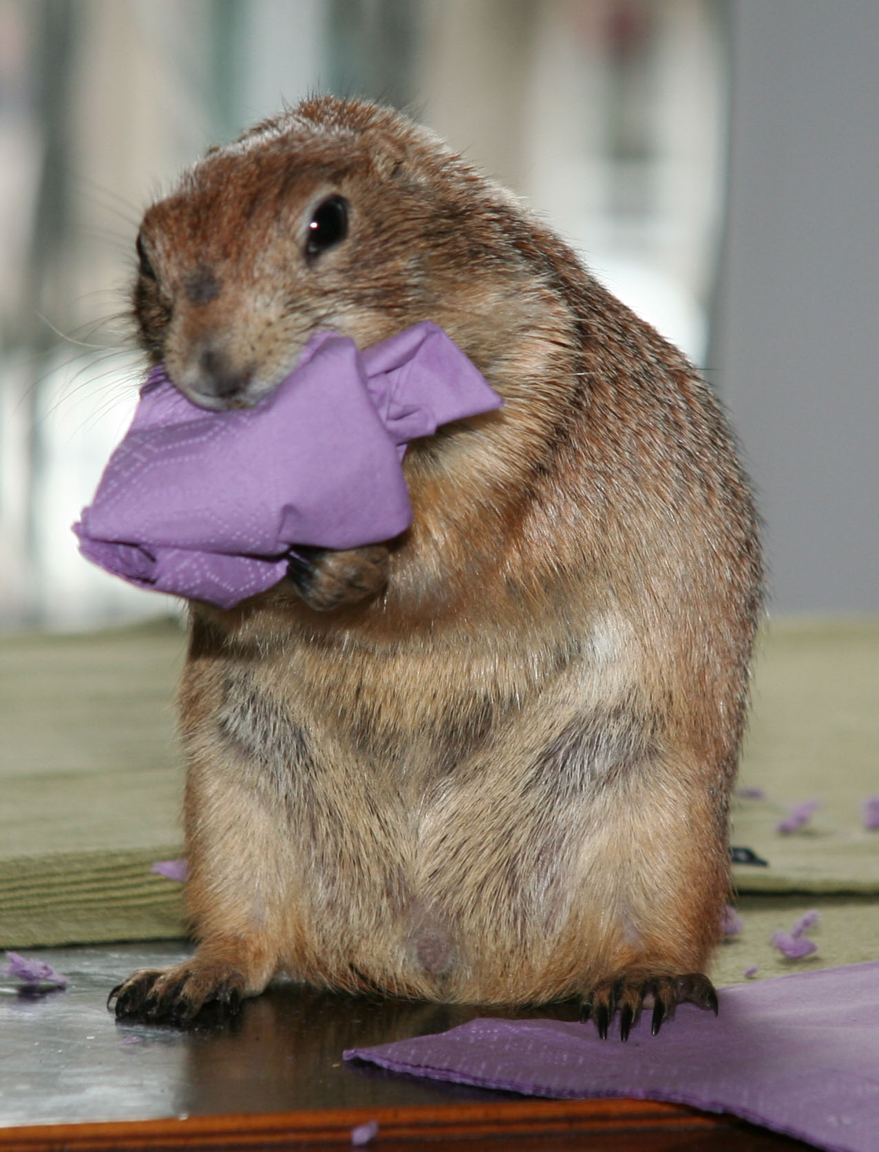 Prairie dog as a pet